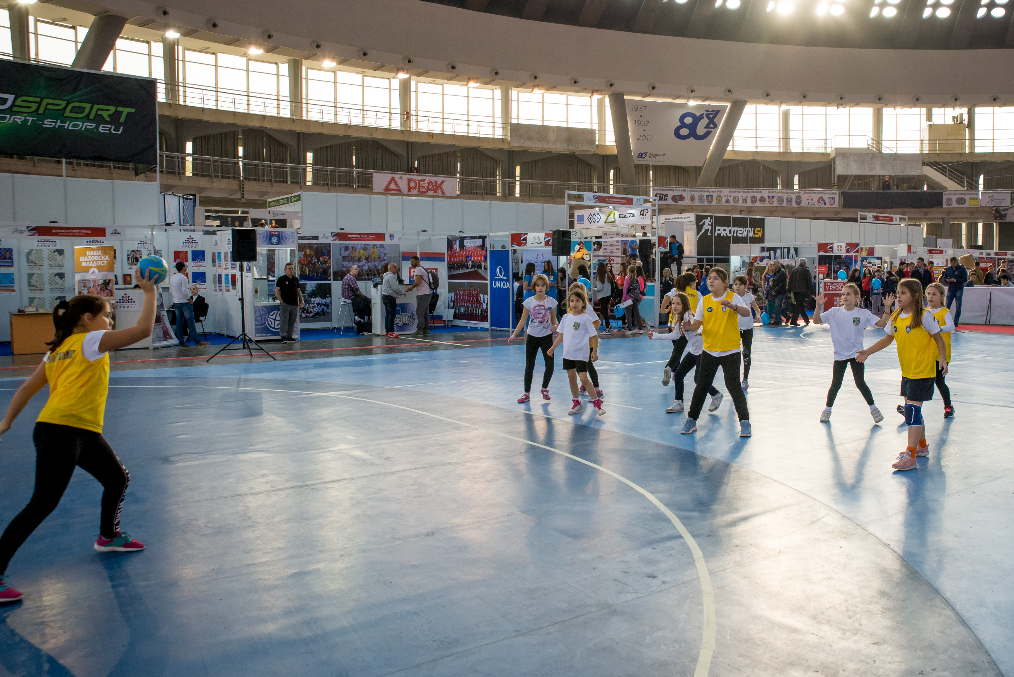 Kids playing Mini handball Српски (ћирилица): Приказ минирукометне игре